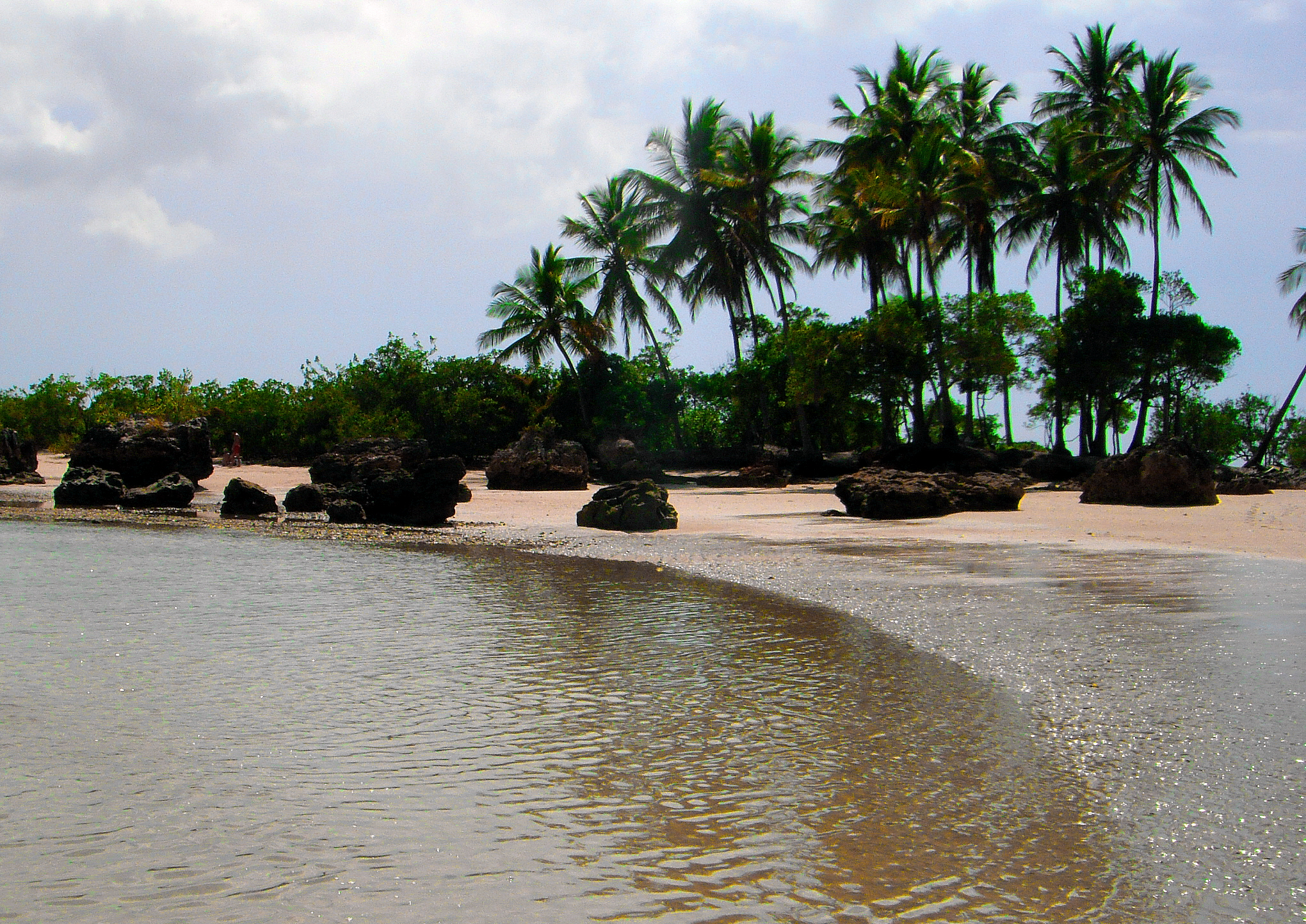 Brazil Natural Resources, Fauna and places